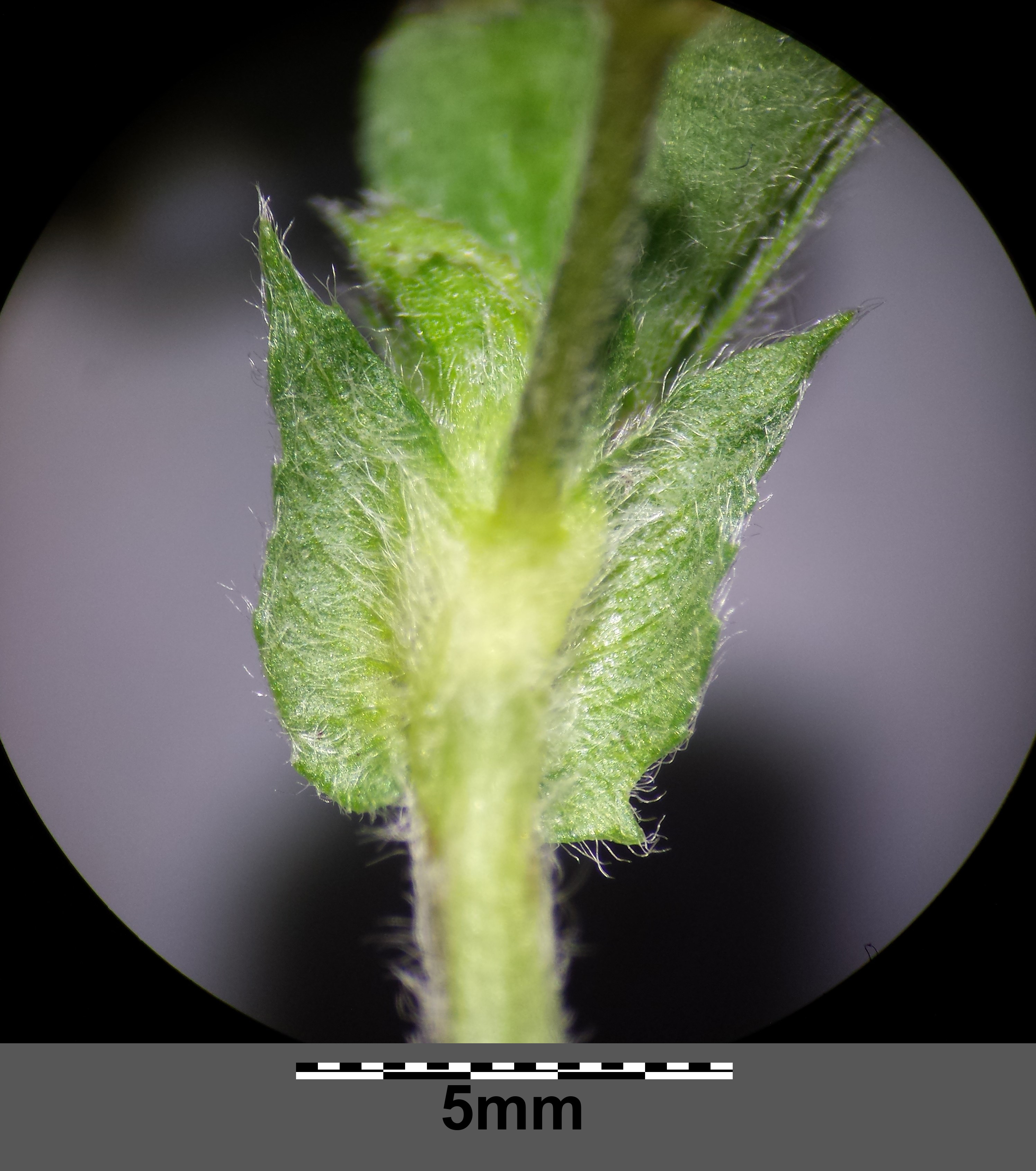 Stipules Taxonym: Medicago minima ss Fischer et al. EfÖLS 2008 ISBN 978-3-85474-187-9 Location: abandoned marshalling-yard Breitenlee, Vienna-Donaustadt - ca. 160 m a.s.l. Habitat: ballast